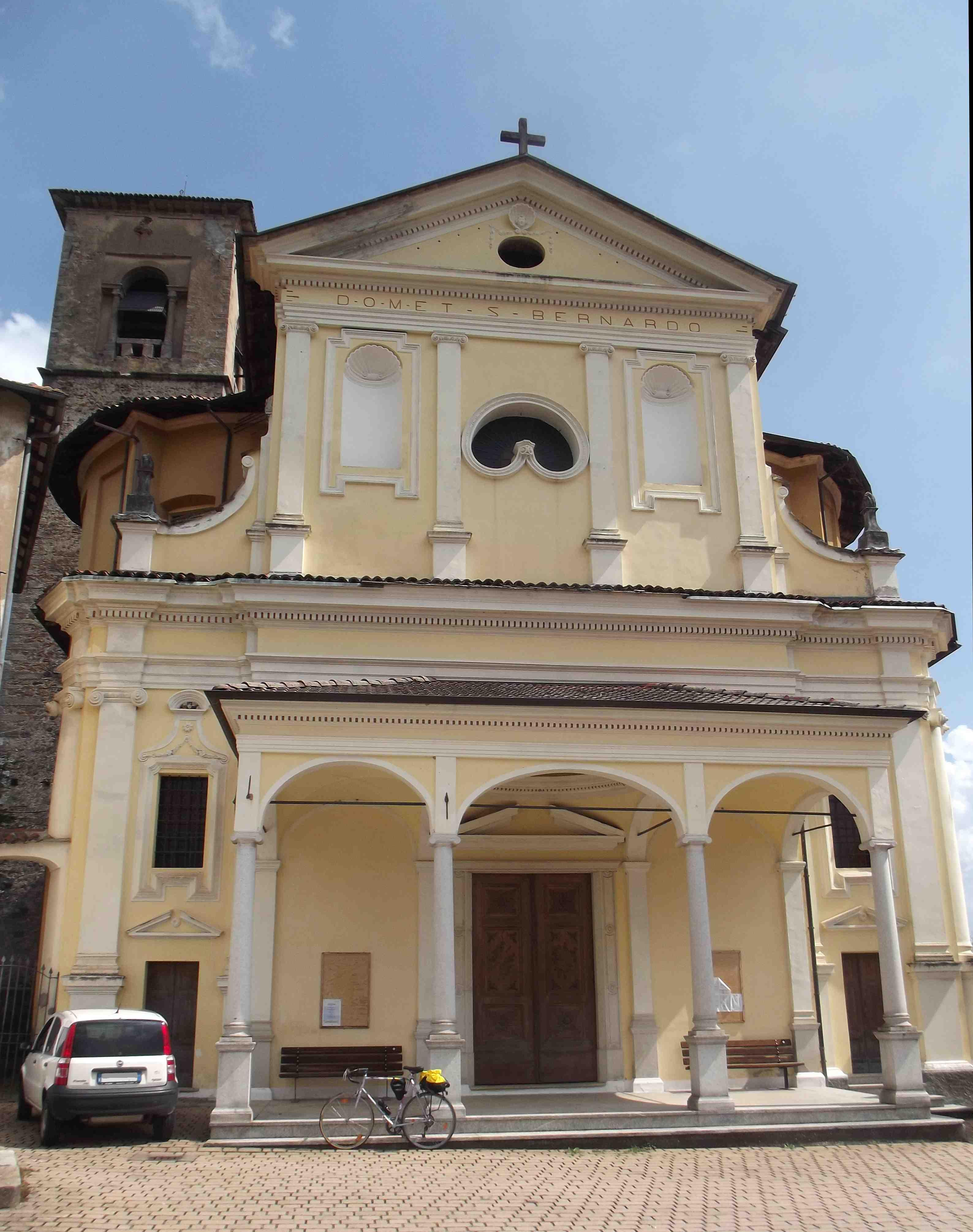 Ailoche (BI, Italy): its church